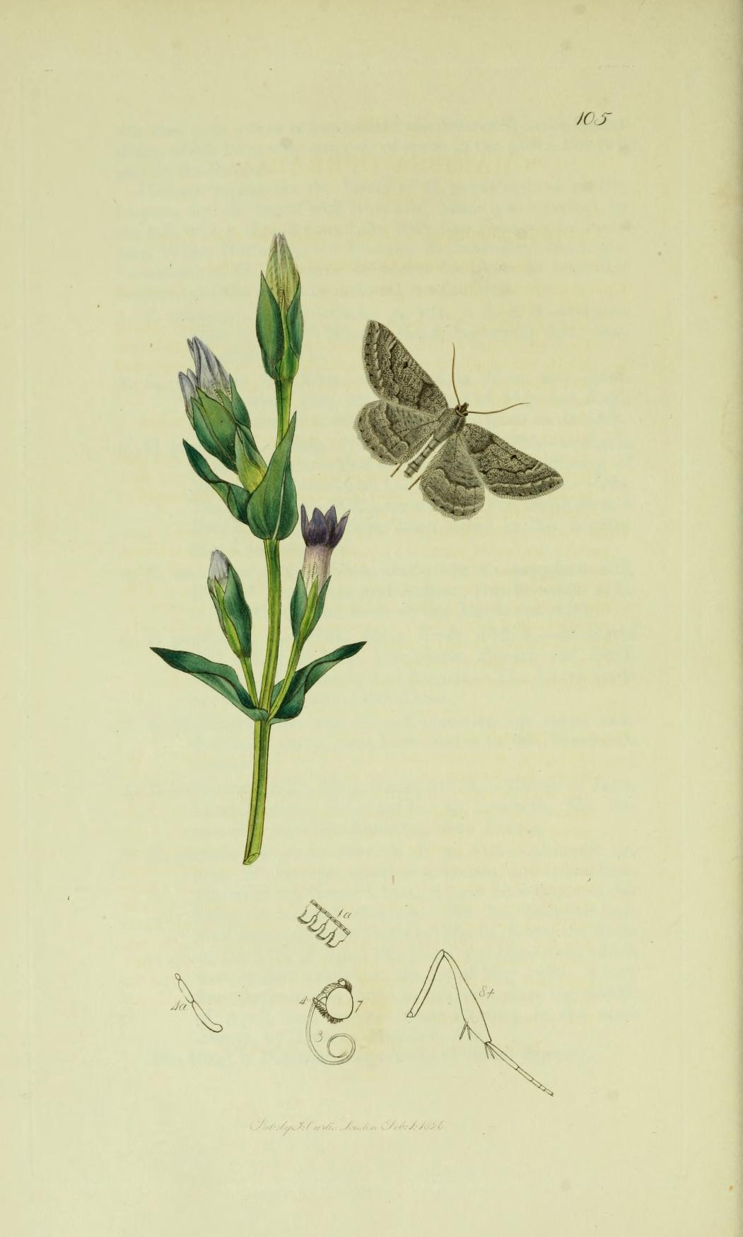 An illustration from British Entomology by John Curtis. Lepidoptera: Charissa operaria Charissa (Gnophos) obscurata (Scotch Annulet).